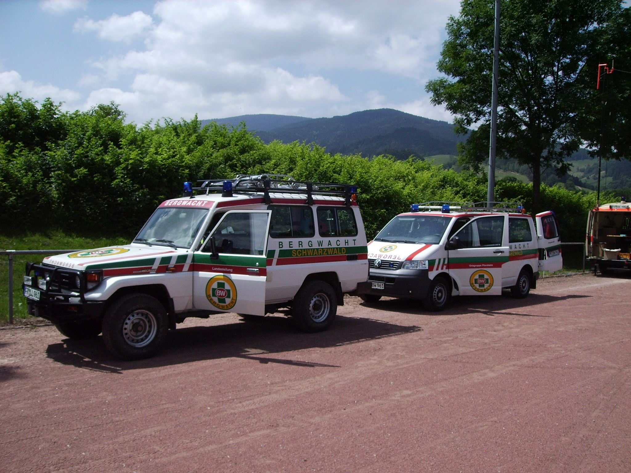 rescue vehicles of German Black Forest Mountain Rescue (BWS)